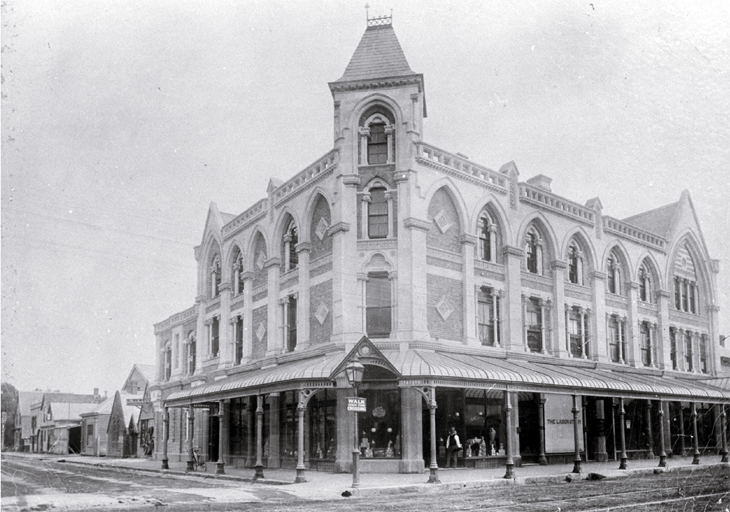 Luck's Building, corner of Colombo & Gloucester Streets, Christchurch, in ca. 1912. The building, designed by Benjamin Mountfort, was built ca. 1870.